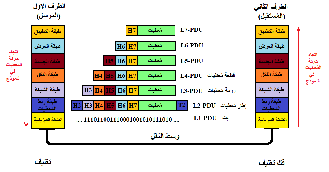 Encapsulation and de-encapsulation in OSI Model